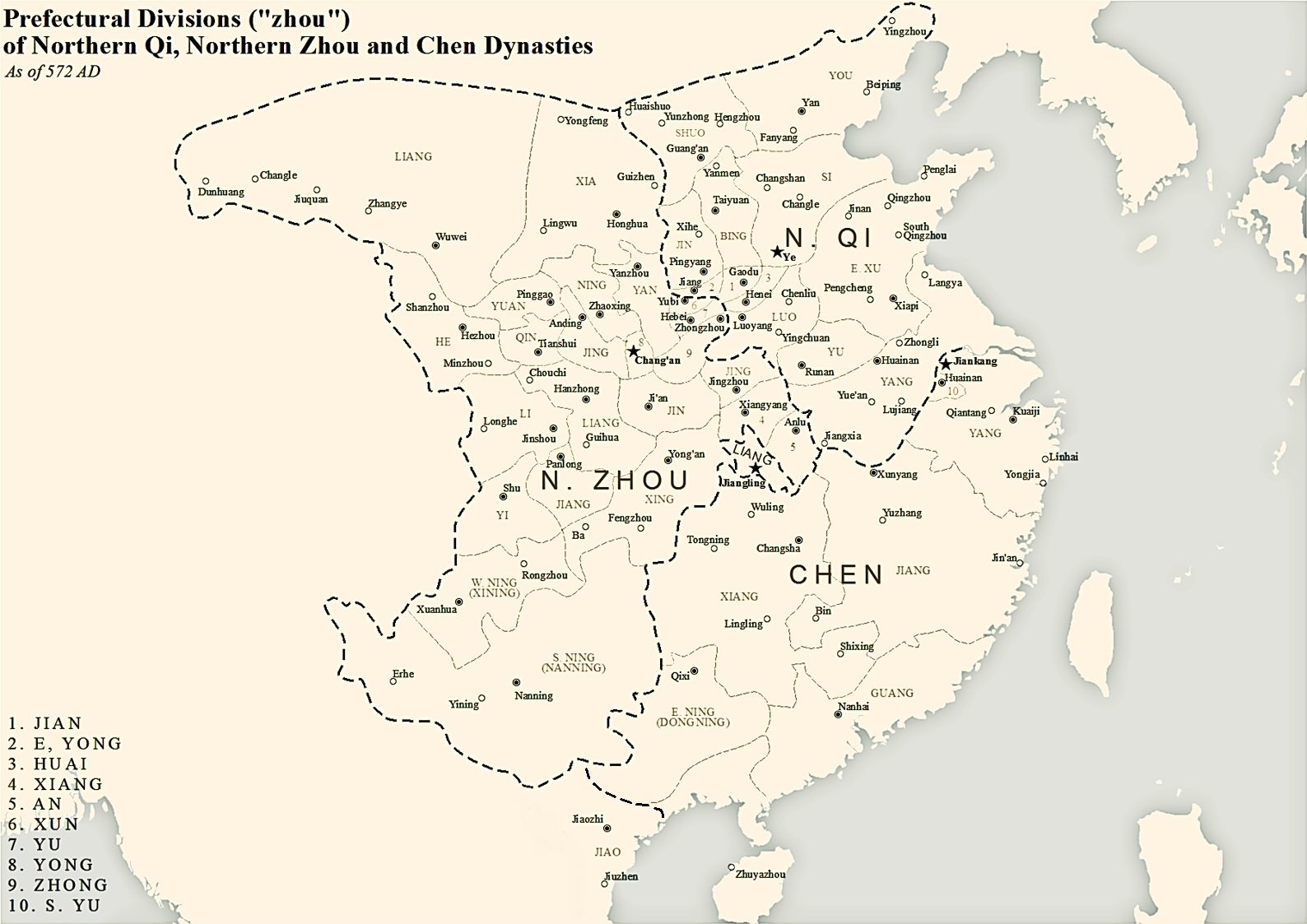 Map of administrative divisions (zhou, the prefectures) of China during the later phase of Southern and Northern Dynasties (Northern Qi, Northern Zhou and Chen), as of 572 AD.